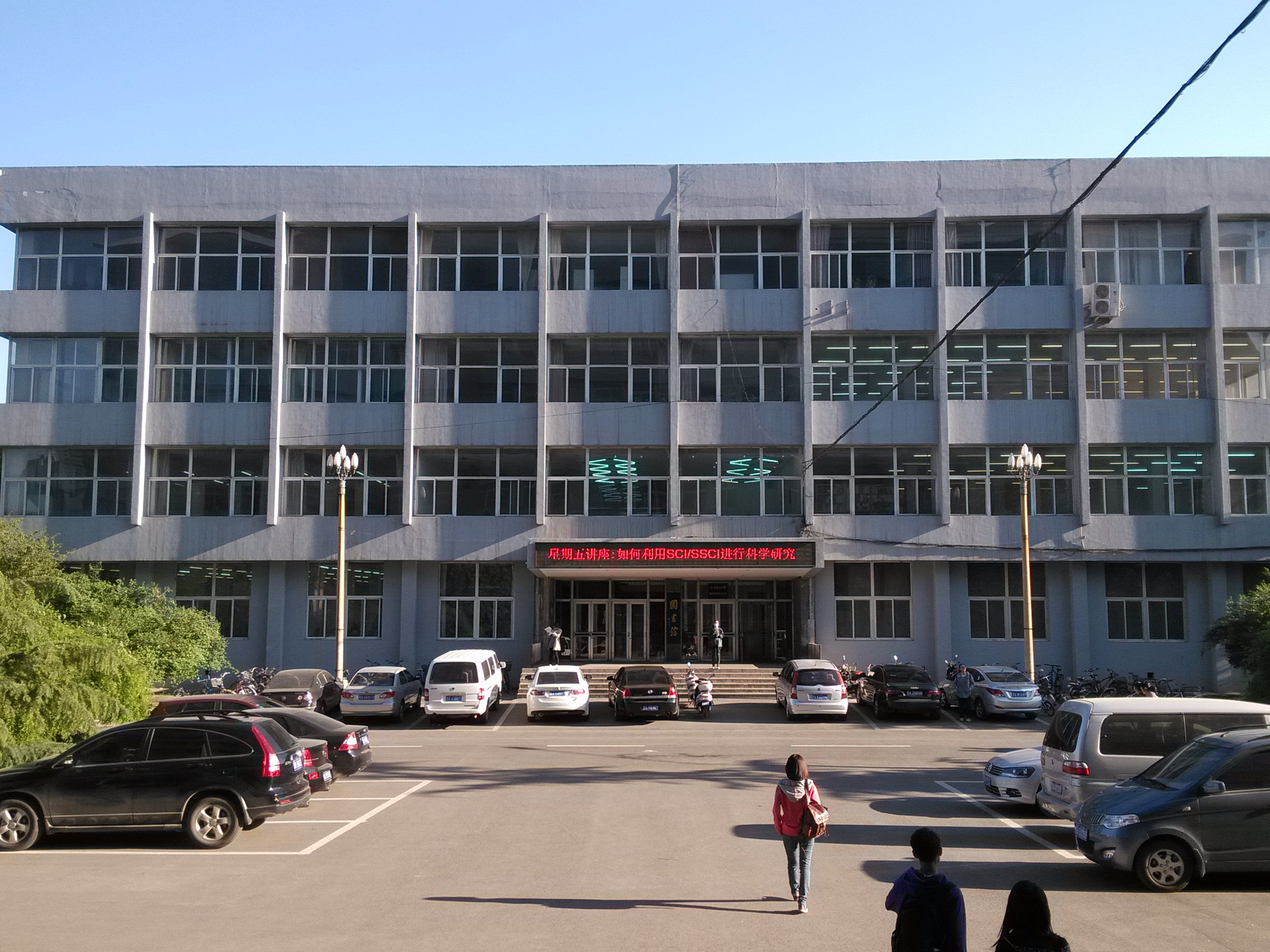 Taiyuan University of Technology Huyu Campus Library.